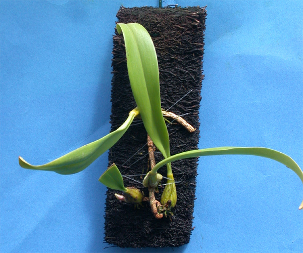 Bulbophyllum bittnerianum